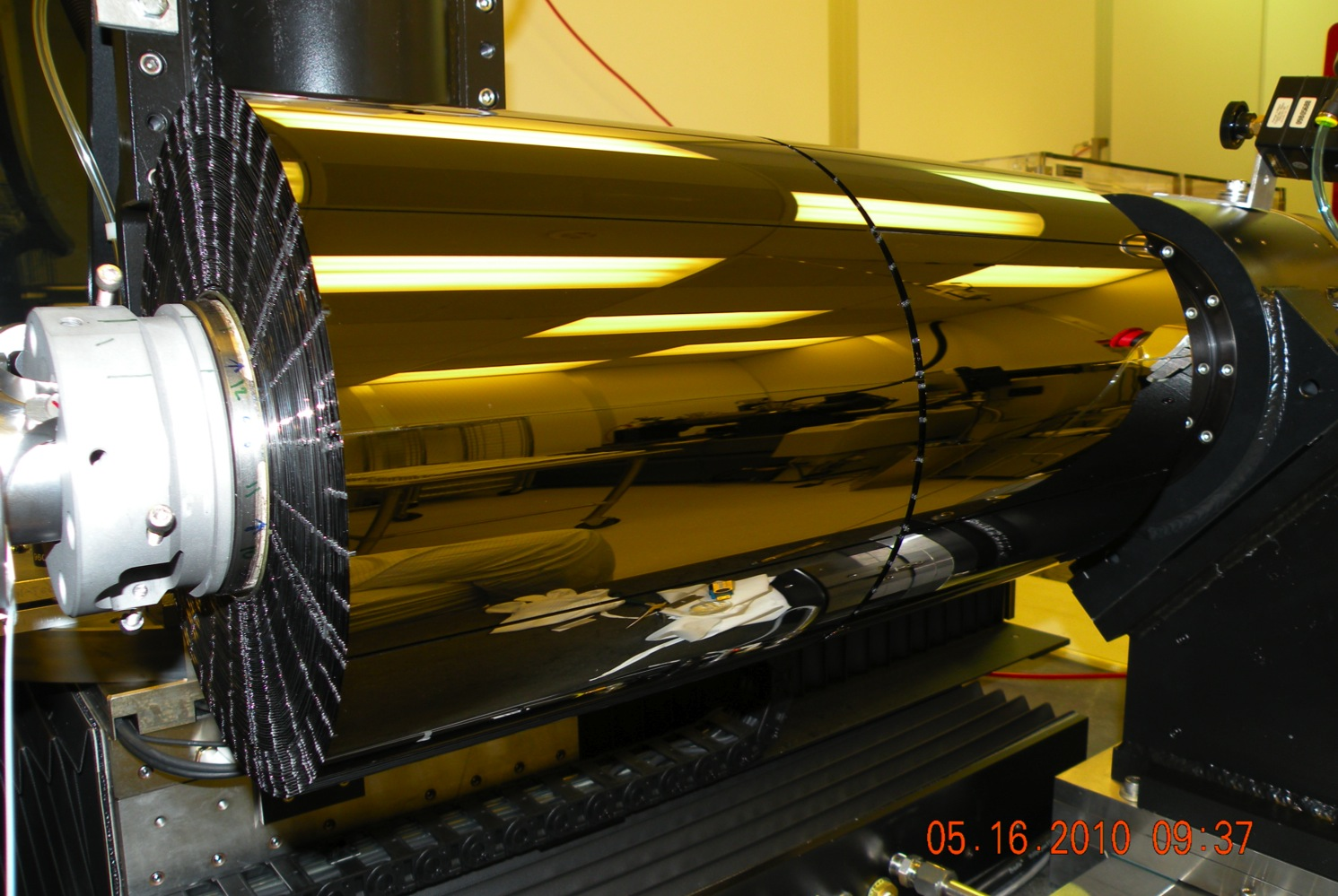 Assembly of First Optics Module Assembly of the first NuSTAR optics module (“FM0”). NuSTAR will fly two optics units, each with 133 layers of grazing incidence optics. Using epoxy and graphite spacers, the layers are built up, approximately one layer per day, on a CNC (computed numerically controlled) lathe assembly machine at Columbia University’s Nevis Laboratory. The inner 66 layers are comprised of 6 segments with 12 pieces of glass per layer, while the outer 67 layers are comprised of 12 segments with 24 pieces of glass per layer. Each unit is 47.2 cm (18.6 inches) long and, upon completion, will be 19.1 (7.5 inches) cm in diameter and will weigh 31 kg (69 pounds). This picture, taken on 2010 May 16, shows 82 layers. The 100th layer was laid on June 9th, and FM0 should be completed by the end of July.